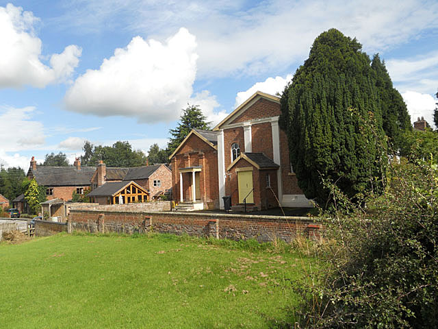 Photograph of Audlem Baptist Church, Cheshire